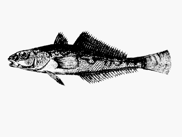 Pseudaphritis undulatus